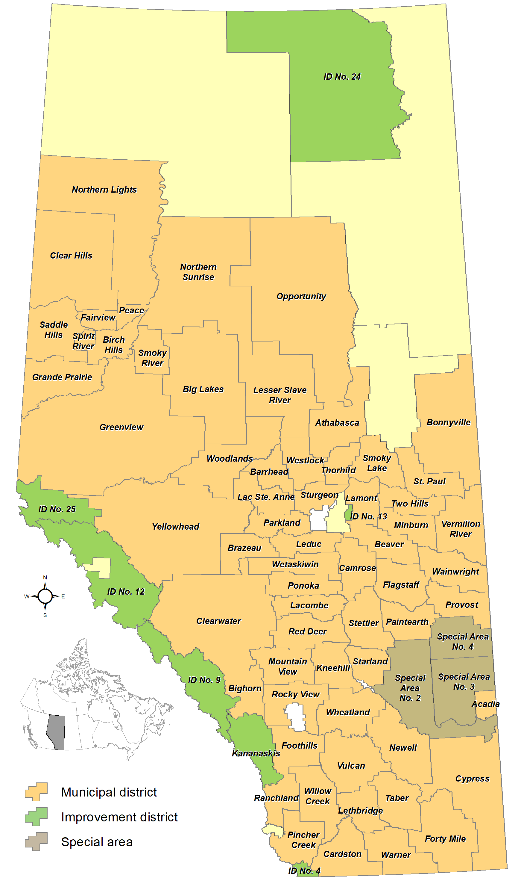 Map showing locations of Alberta's 74 rural municipalities by type (63 municipal districts, 3 special areas and 8 improvement districts) as of May 2020, with base reference features (major lakes and rivers).